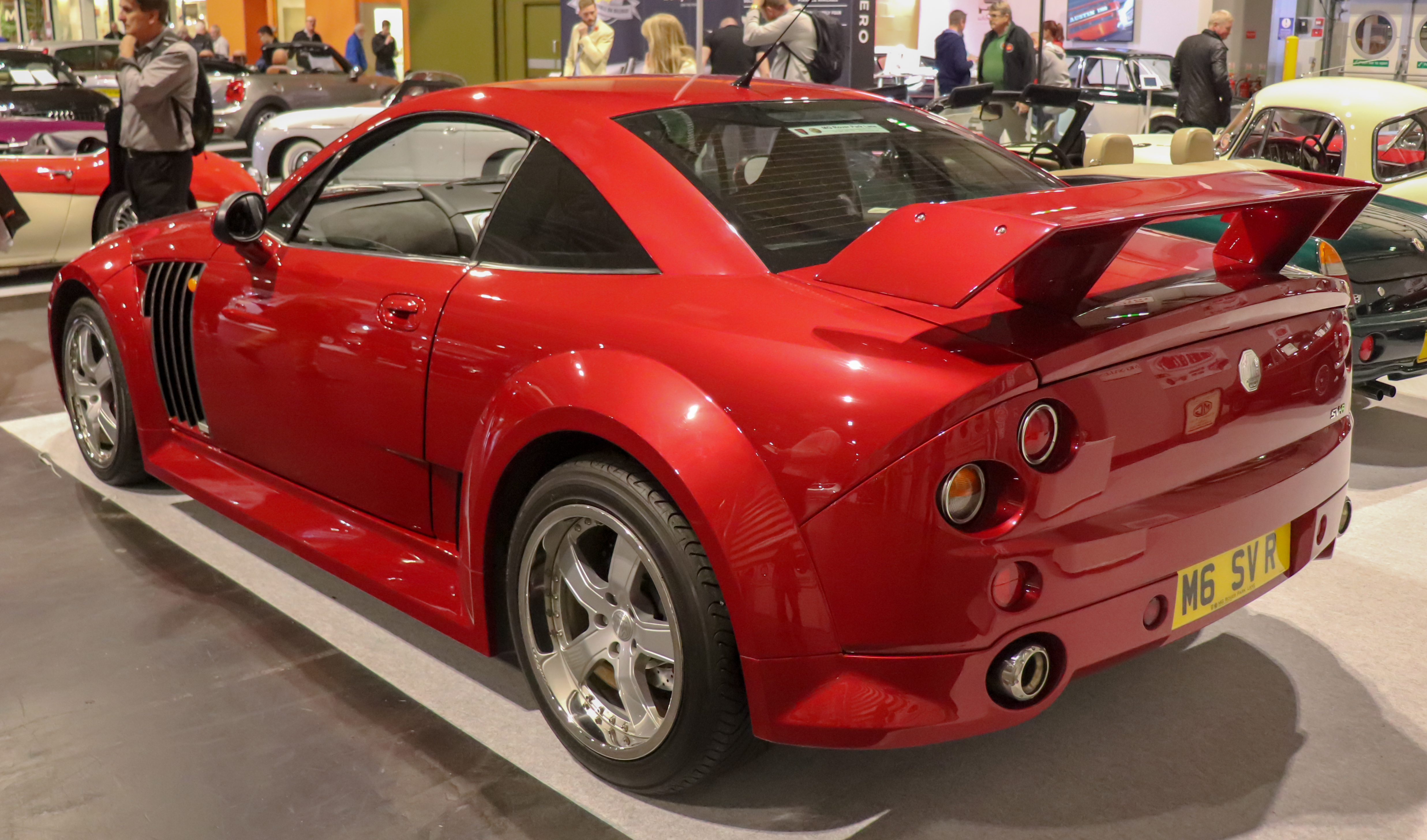 2005 MG XPower SV 5.0 Rear Taken at the NEC Classic Motor Show 2018